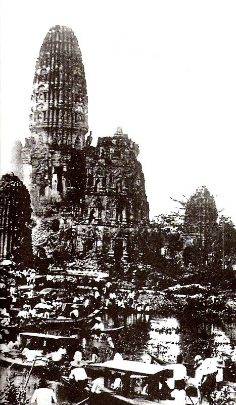 Wat Mahathat in Times of Rama 5, Chulalongkorn